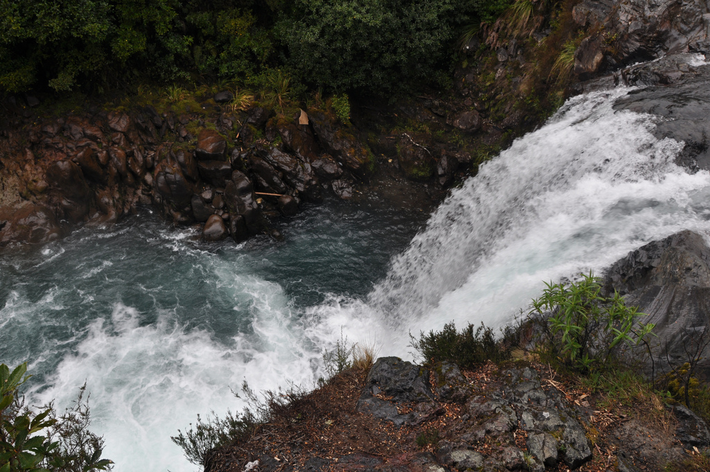 This is the waterfall and plunge pool that was used to film Gollum's fish-catching scene in the second LotR film.